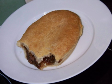 Partially consumed Clark's Pie